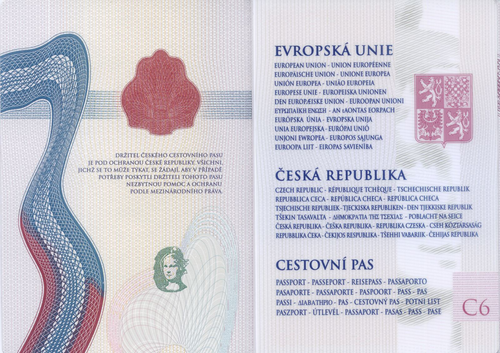 First page of Czech biometric passport issued in 2007.